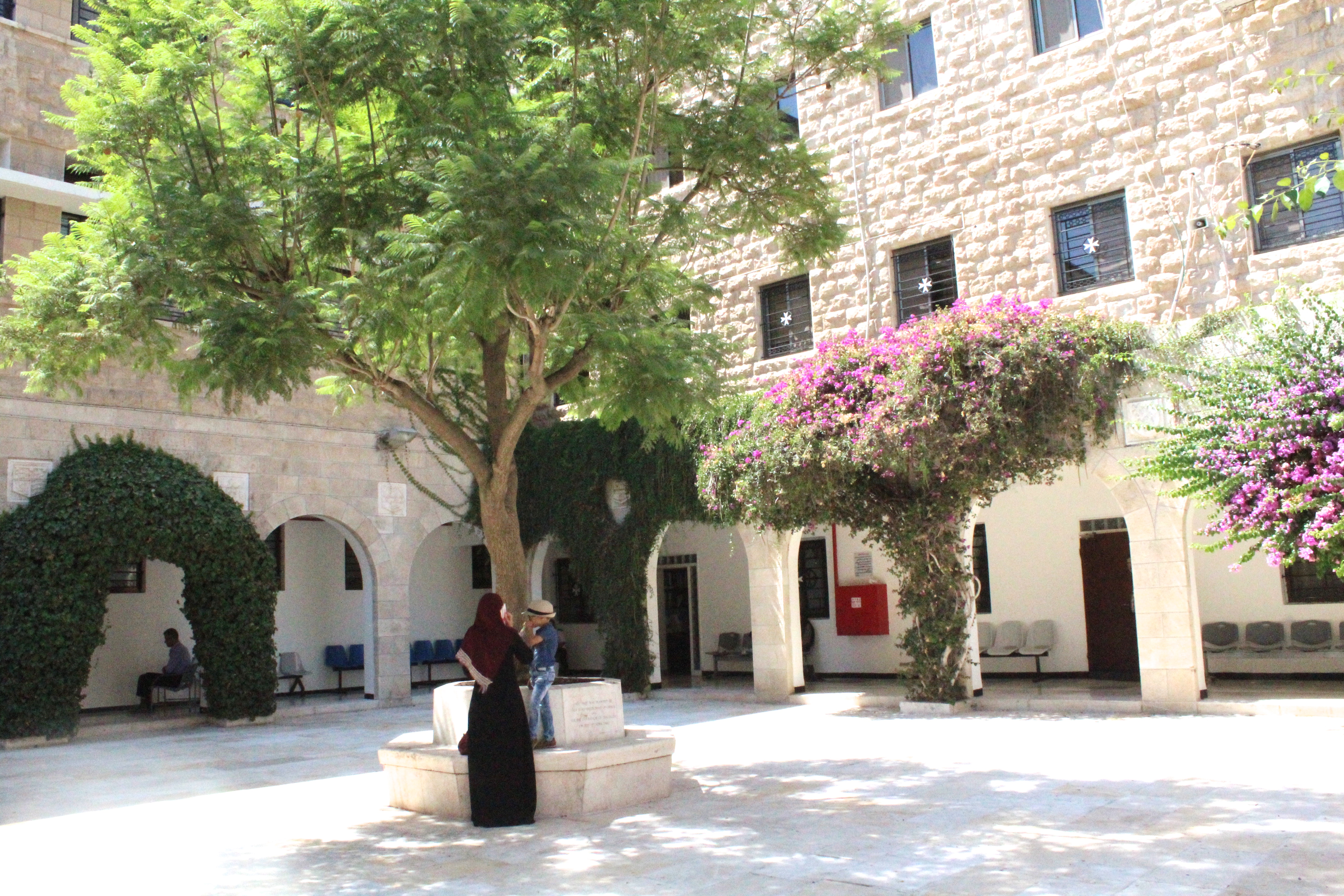 St John of Jerusalem Eye Hospital Group cloisters offer a refuge for travelling Palestinians who seek eye treatment at the hospital.